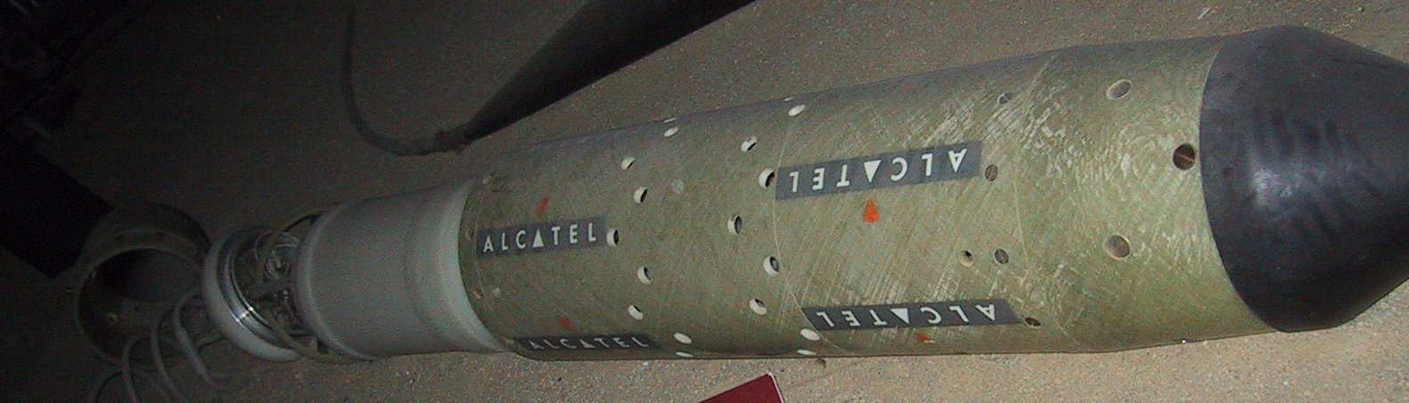 Sub-marine repeater, used for undersea telecommunication cables (Museum of telecommunications in Pleumeur-Bodou, France).